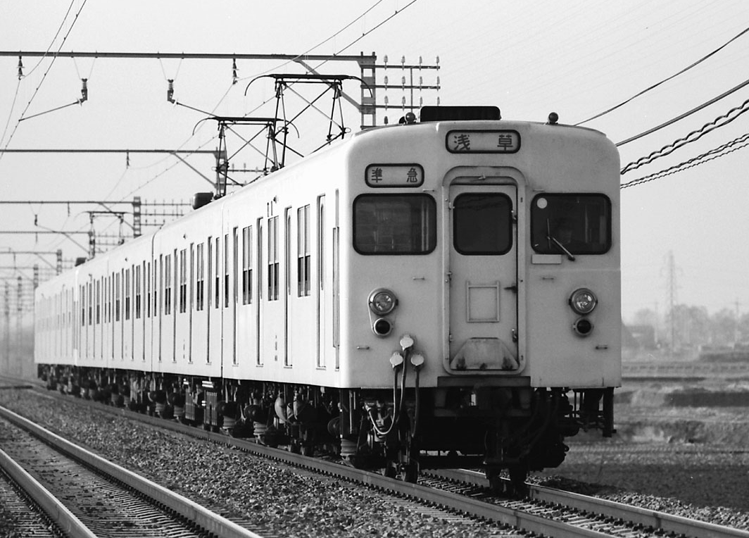 A Tobu 8000 series 6-car EMU formation on an up Isesaki Line semi express service to Asakusa near Wado Station